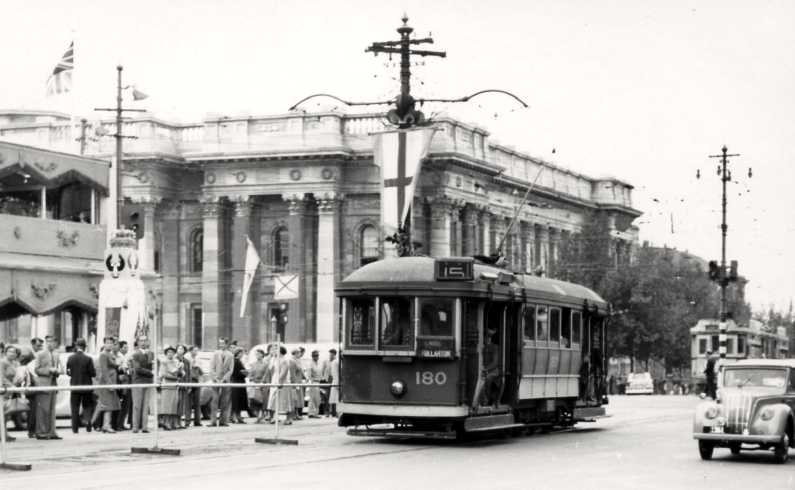 An Adelaide Type C tram, number 180, in King William Street at the intersection with North Terrace on 16 October 1953. Crowds are assembled to see Queen Elizabeth II and the Duke of Edinburgh pass by. Buildings are decorated with flags and cyphers. The South Australian Parliament is in the background.